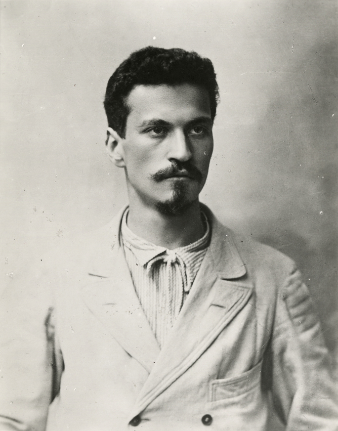 Cesare Battisti, geography student at Istituto di Studi Superiori of Florence in 1897.